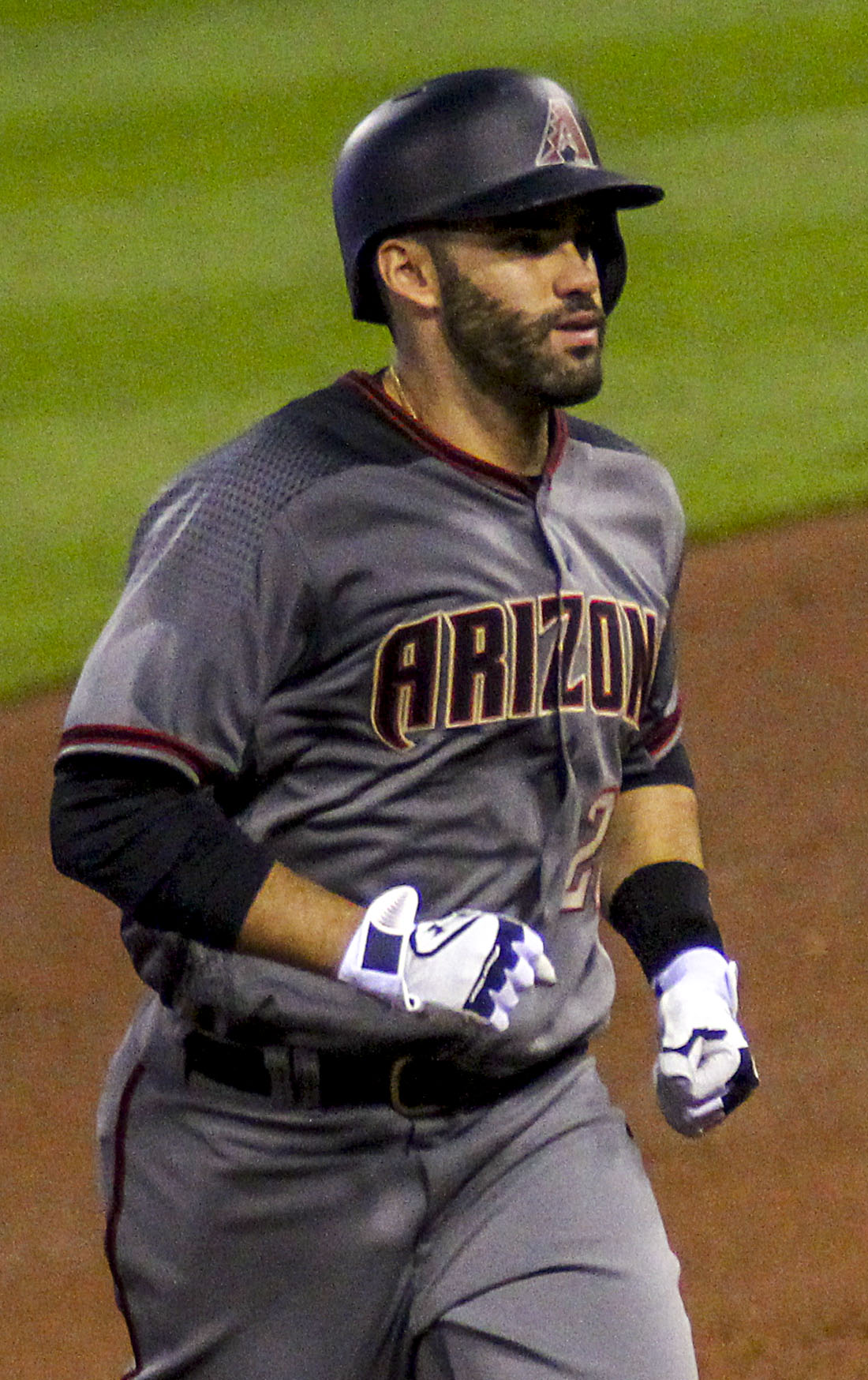 JD Martinez rounds the bases after hitting a grand slam in St.Louis 2017.